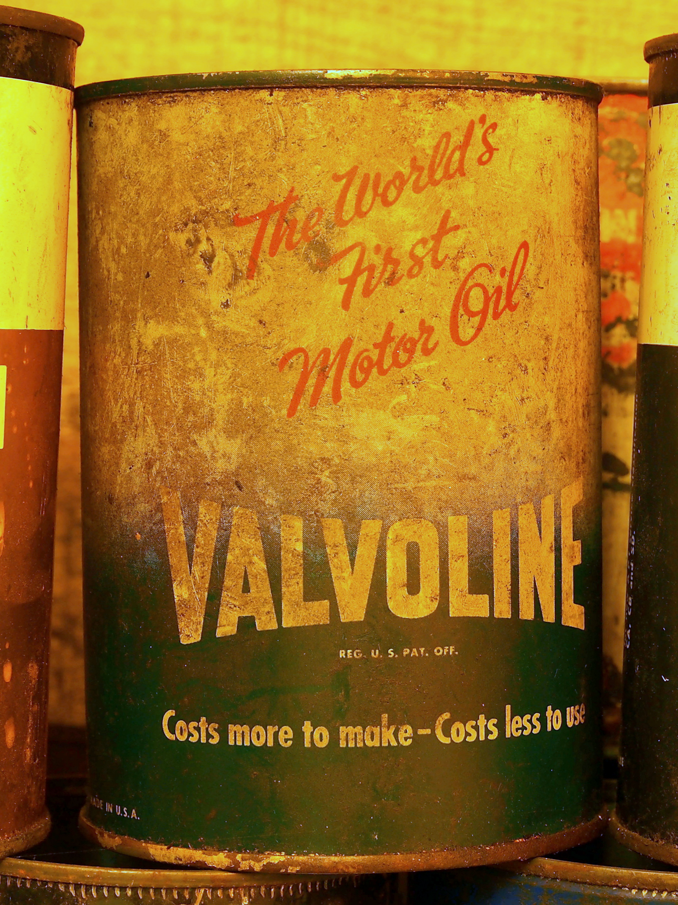 Old product photographed in the museum Terug in de Tijd, Horn, The Netherlands.